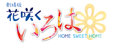 Hanasaku Iroha: Home Sweet Home logo